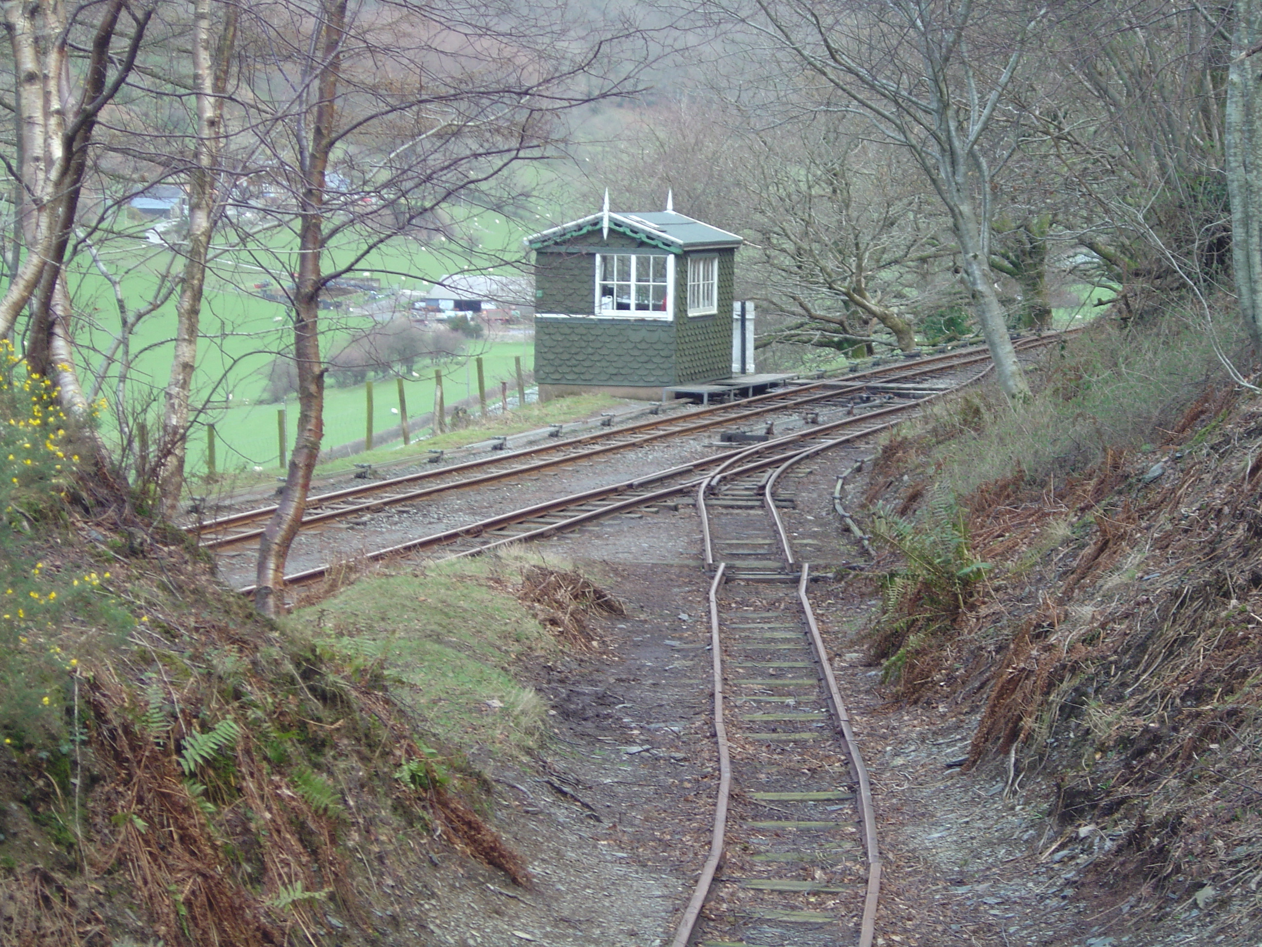 Talyllyn Railway: Quarry Siding signal box and station